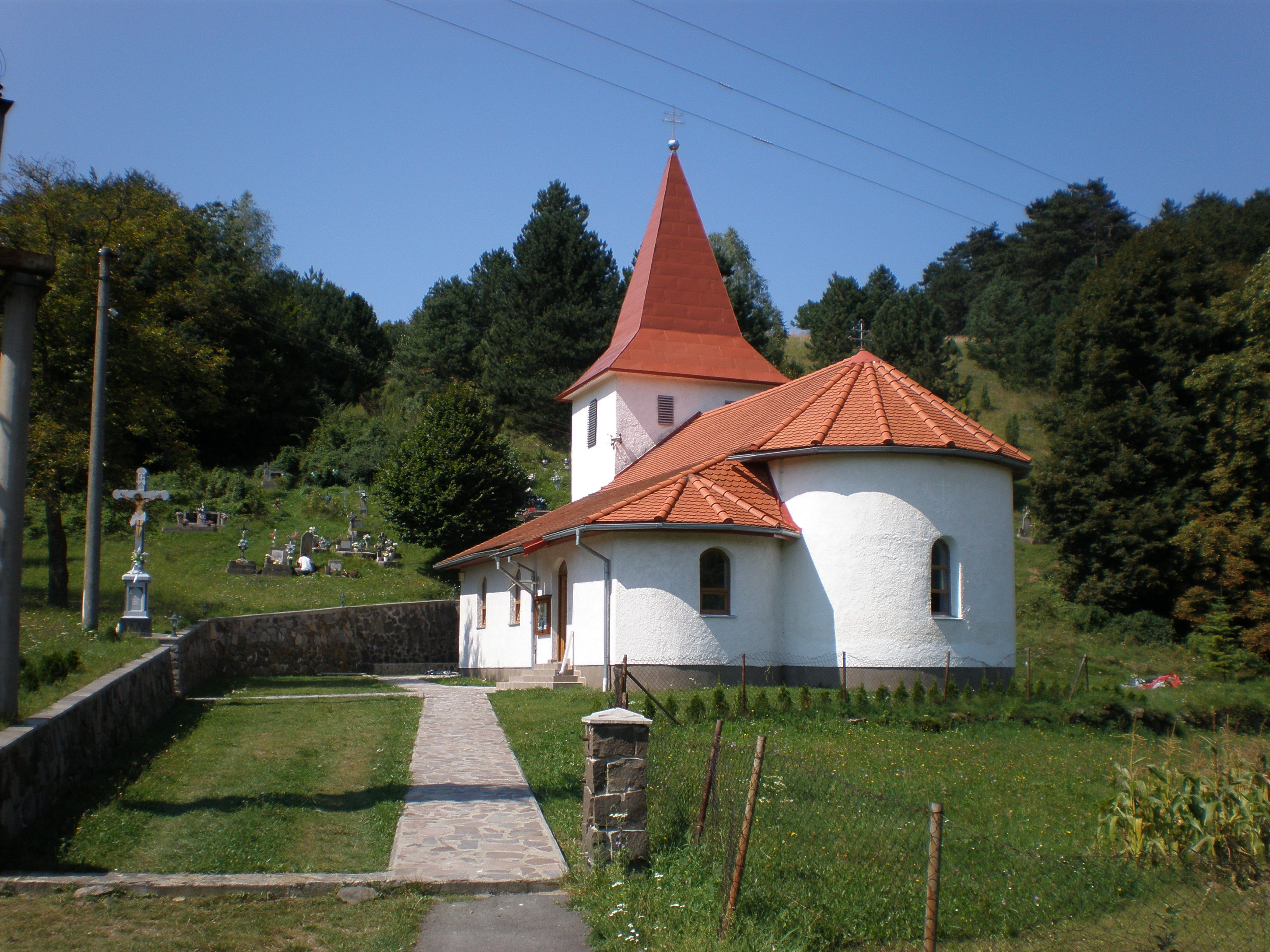 church in porubka